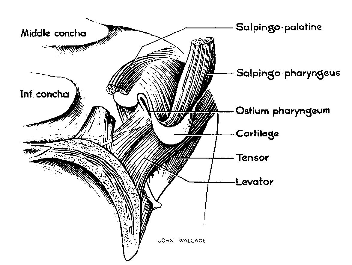 Dissection of the muscles of the right eustachian tube and their relation to the cartilage.